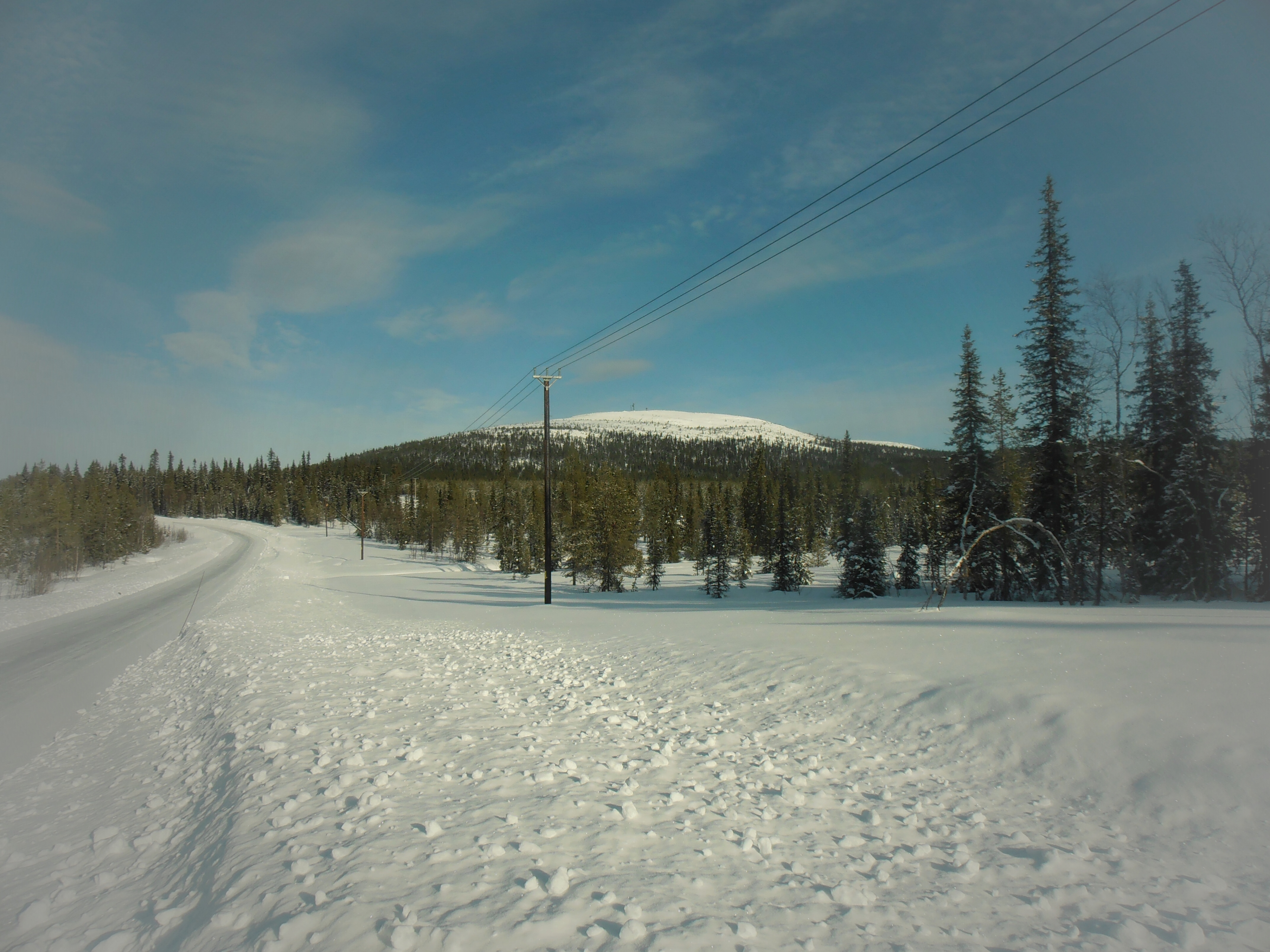 Teletöisentunturi, Gällivare municipality